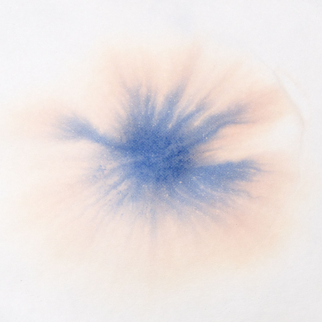 Blot of Parker Quink on damp paper after 30 minutes showing blue and peach components